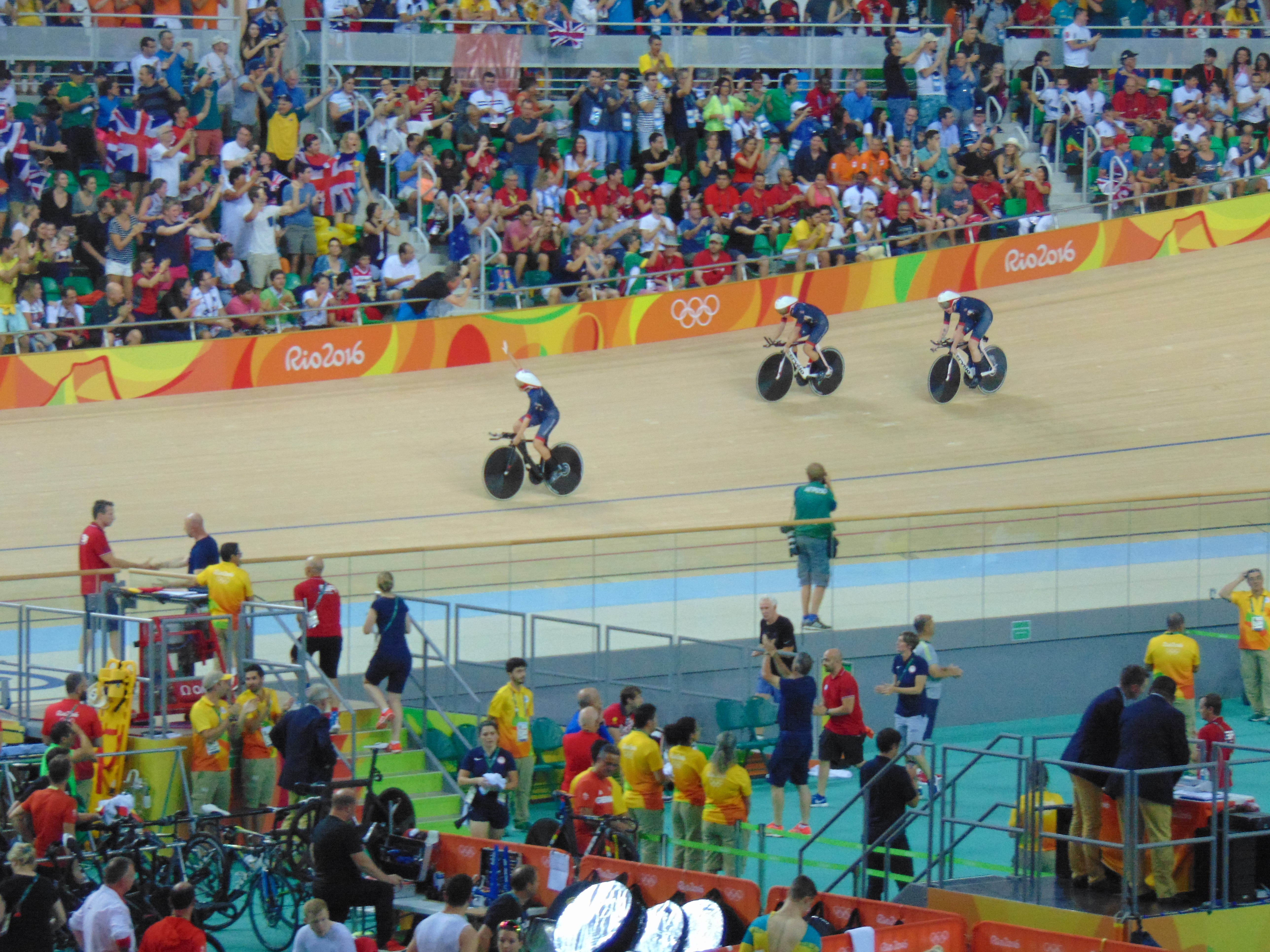 Rio 2016 - Track cycling 13 August (CT004)